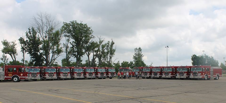 Multipurpose pumper Spartan ERV of CGBVP - Peru